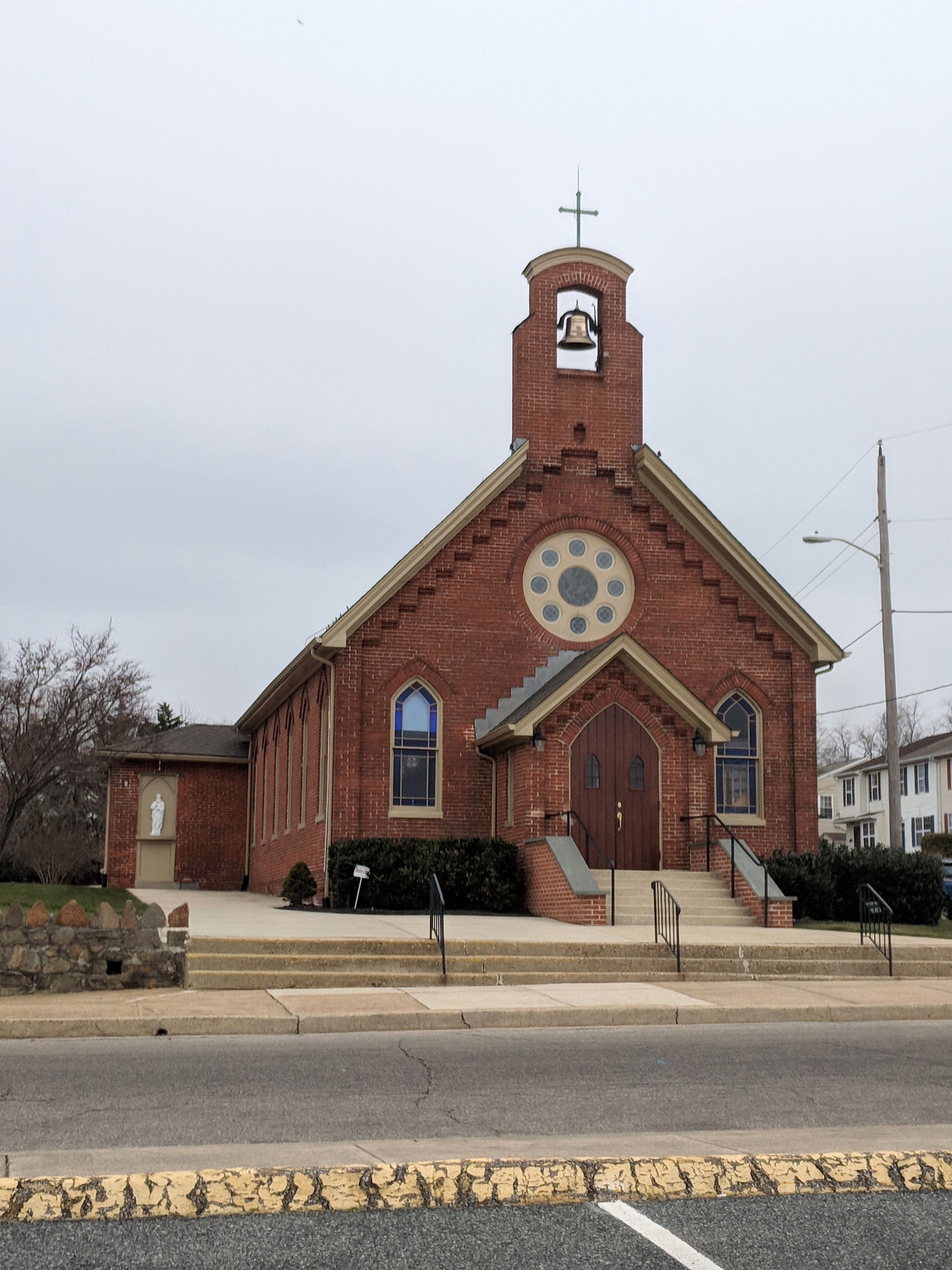 St. Athanasius Roman Catholic Church in Curtis Bay, Baltimore, Maryland.